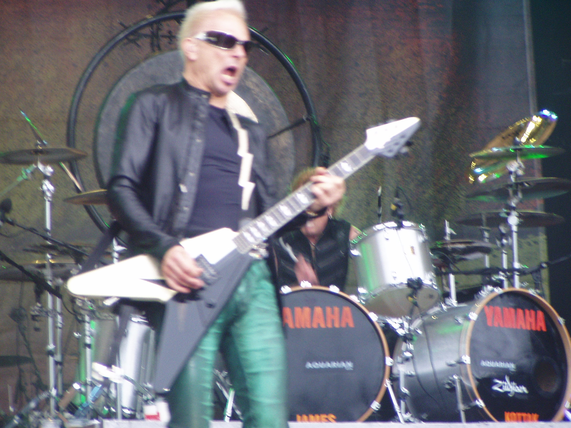 Gli Scorpions al Gods of Metal 2007